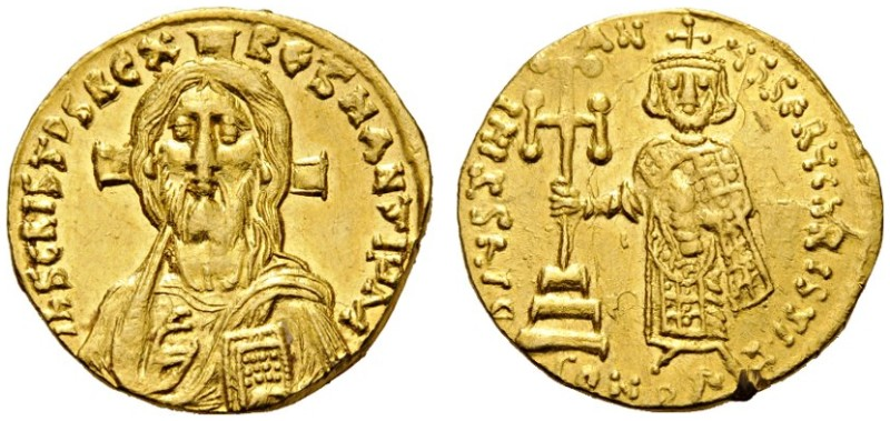 Justinian II, first reign, 685-695. Solidus (Gold, 20mm, 4.37 g 6), Constantinople, 692-695. IhS CRISTDS REX REGNANTIuM Draped bust of Christ facing, with long hair and full beard, raising right hand in benediction and holding book of Gospels in his left; behind head, cross. Rev. D IuSTINIANuS SERu ChRISTI / CONOP Justinian II, crowned, bearded and wearing loros, standing facing, holding cross potent on base and two steps in his right hand and akakia in his left.